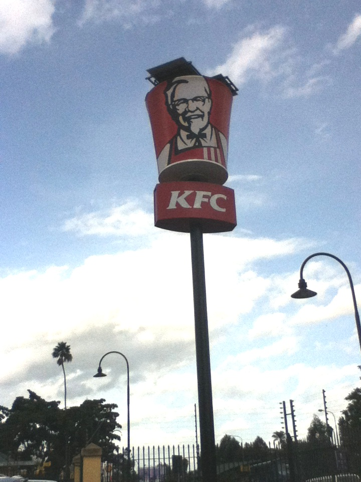 A KFC bucket sign outside Nairobi's (and Kenya's) first KFC outlet at The Junction Shopping Mall.